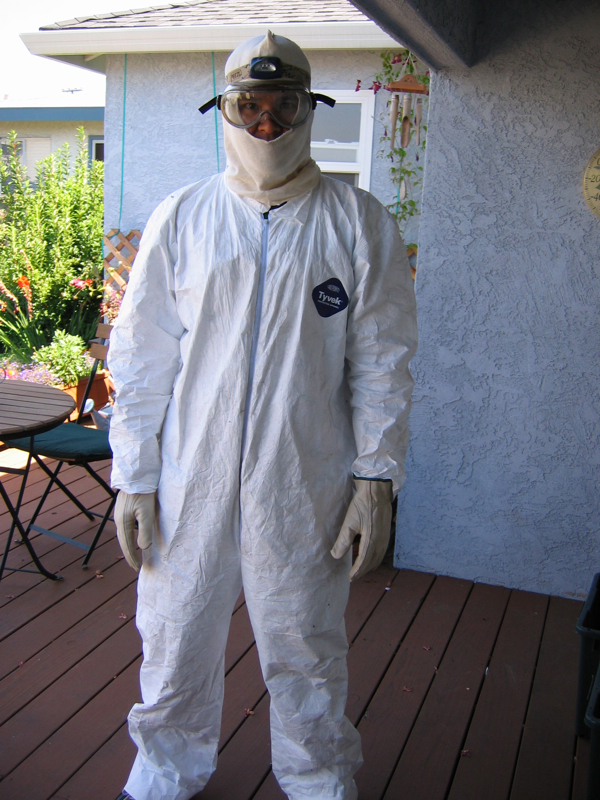 John wearing a Tyvek suit before going under the house.